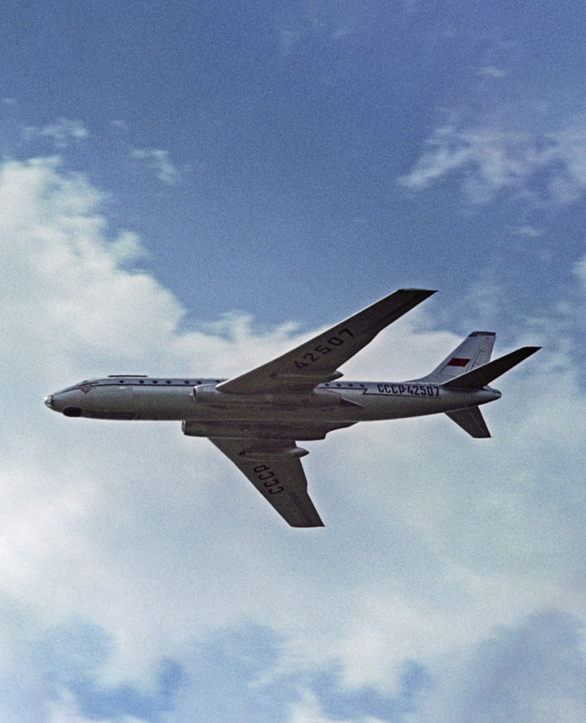 “A Tupolev Tu-104 jet airliner”. July 9, 1961. A Tupolev Tu-104 Camel jet airliner flying by during an air parade in Tushino, Moscow.